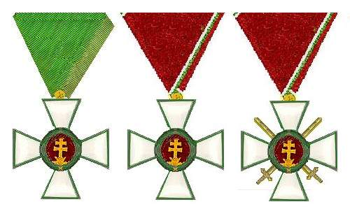 Hungarian Order of Merit Knight Crosses